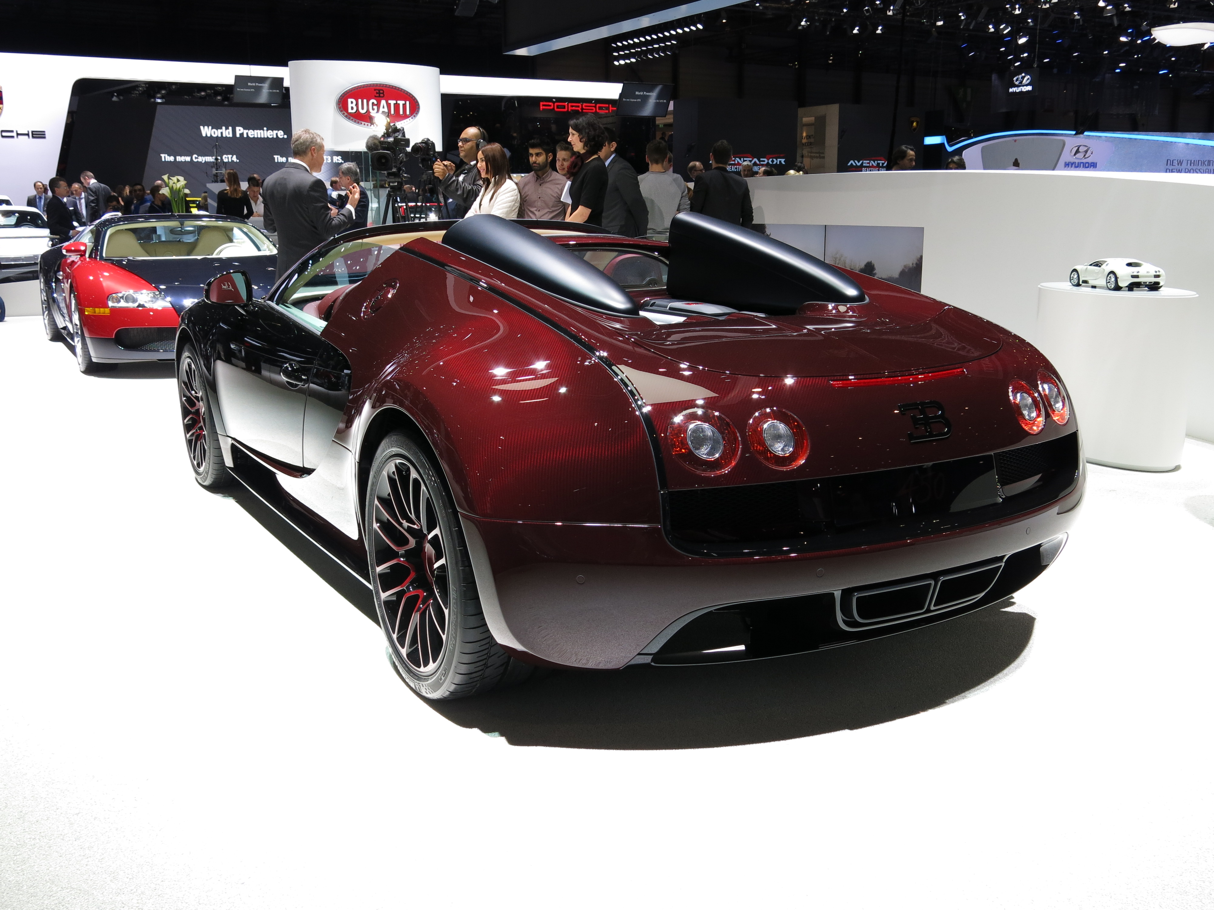 Geneva Motor Show 2015 (photo taken on the first press day)